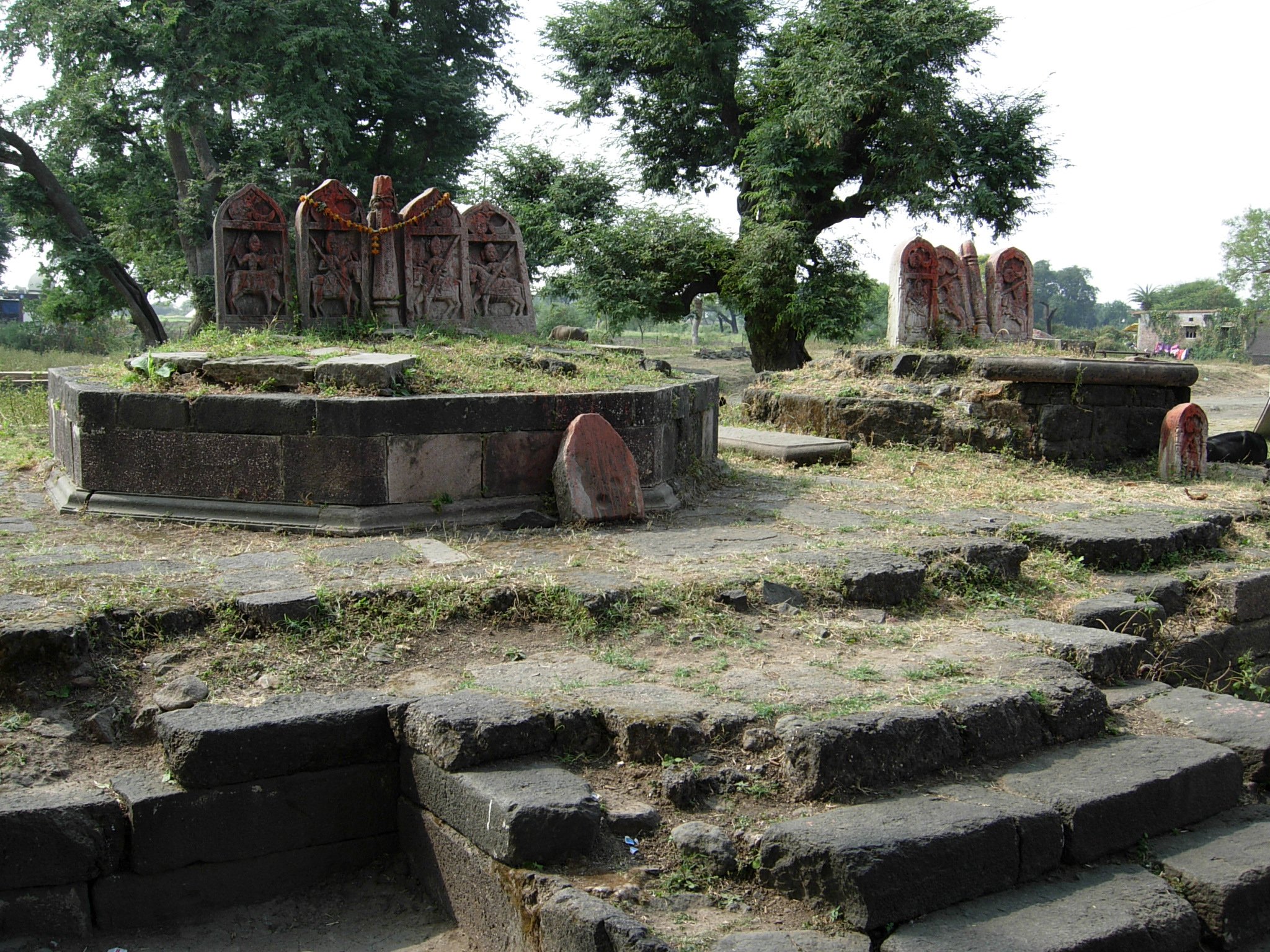 Hero stones at Tirla, Dhar, Madhya Pradesh, India.